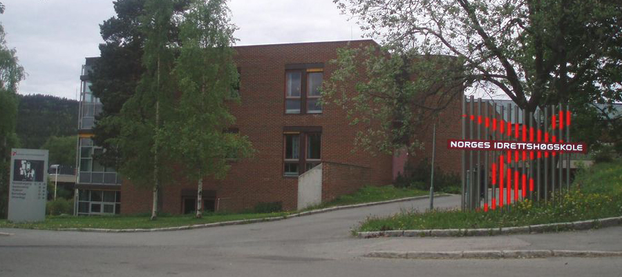 Norways college of higher sportseducation is located at Sognsvann, Oslo, Norway.